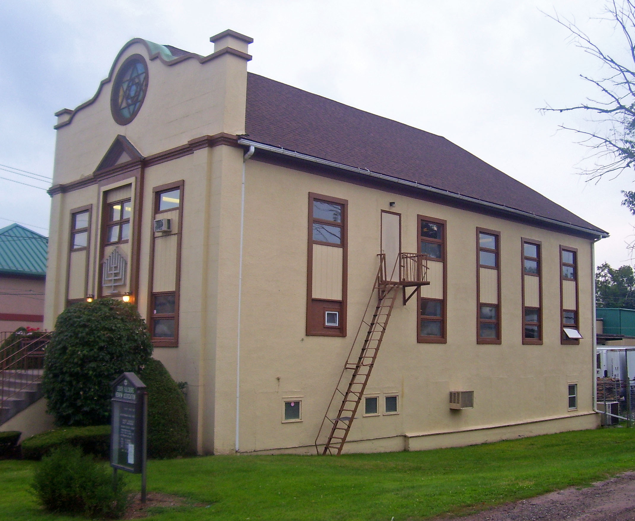 South Fallsburg Community Hebrew Association Synagogue, South Fallsburg, NY, USA